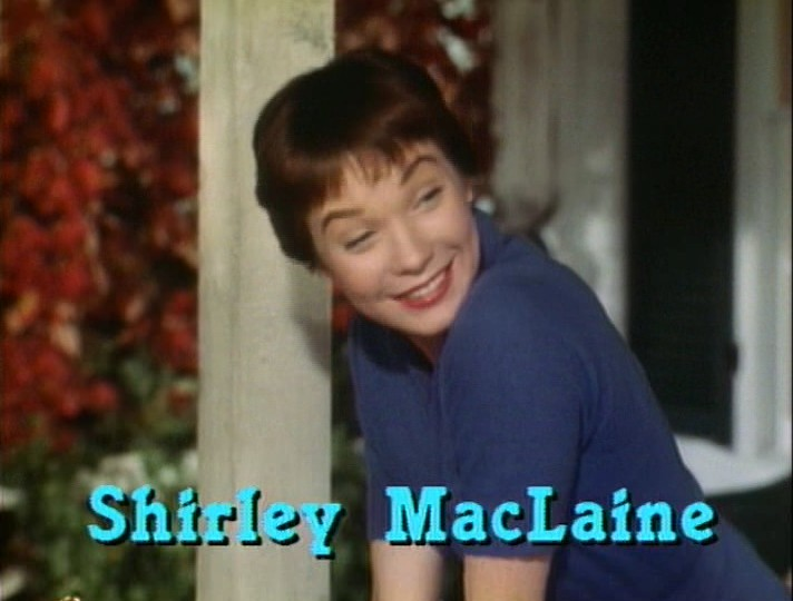 Cropped screenshot of Shirley MacLaine from the trailer for the film The Trouble with Harry (1955).